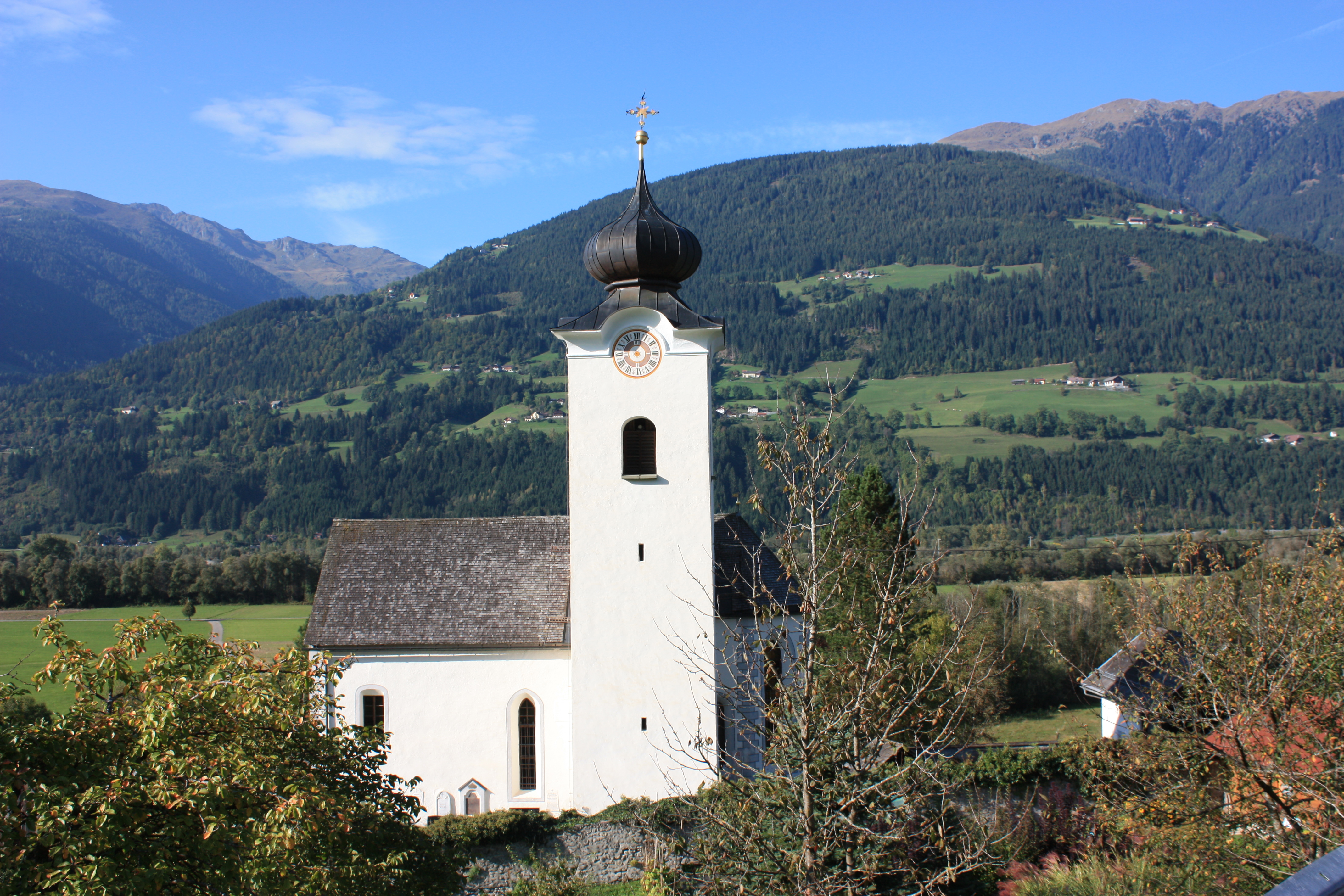 Parish church Saint Niklaus Locality:Waisach Community:Greifenburg